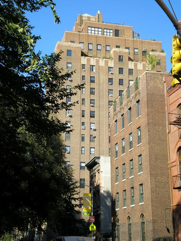 The author of this photo is me, David Shankbone. It was taken 5 August 2006. On Avenue B and 8th Street looking north, at the Christadora House, a high-rise luxury aparttment building in the East Village of New York City. It was for many the first symbol of gentrification in the neighborhood, and played a role in the Tompkins Square Park Police Riots.